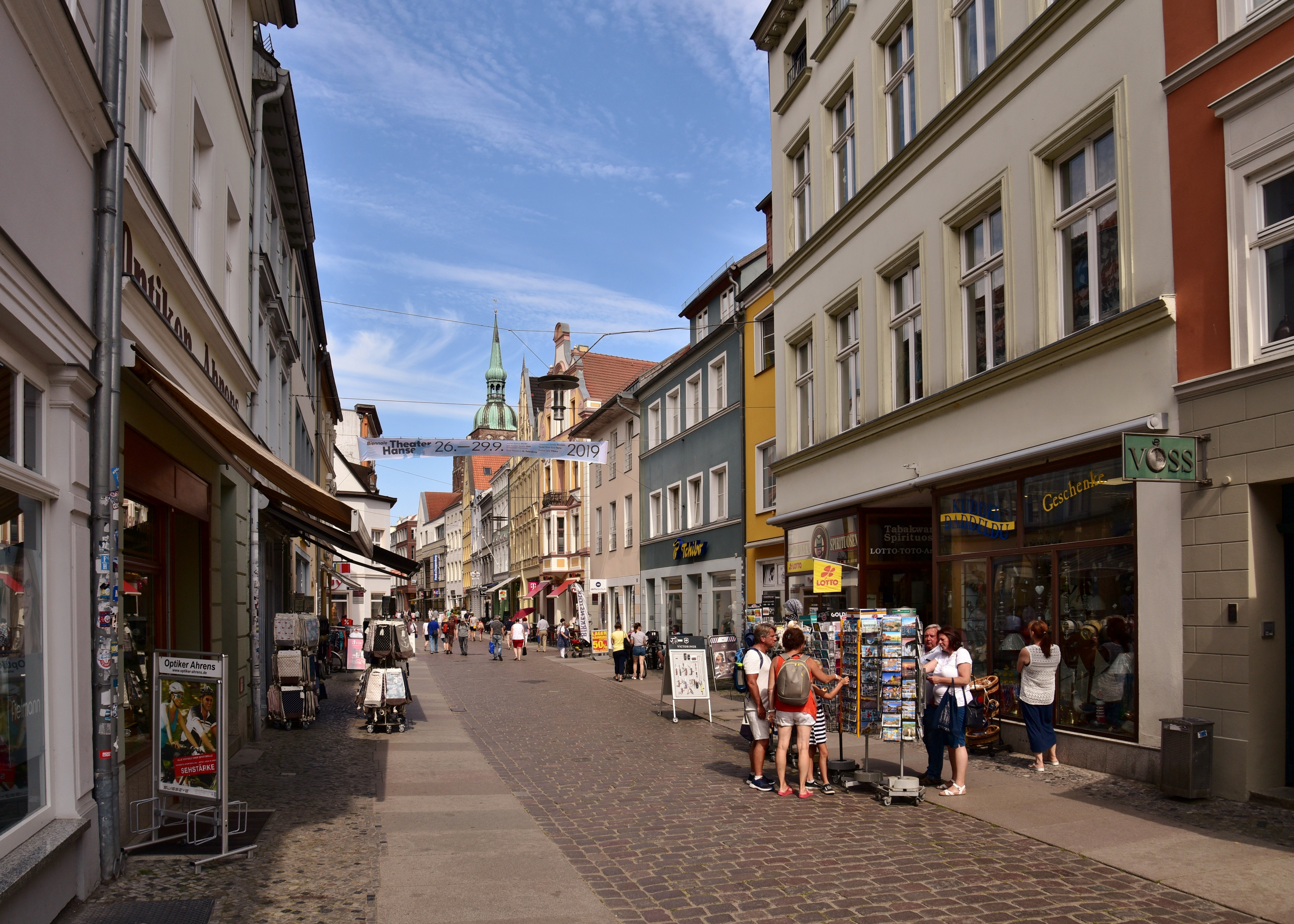 General view of Ossenreyerstraße in Stralsund